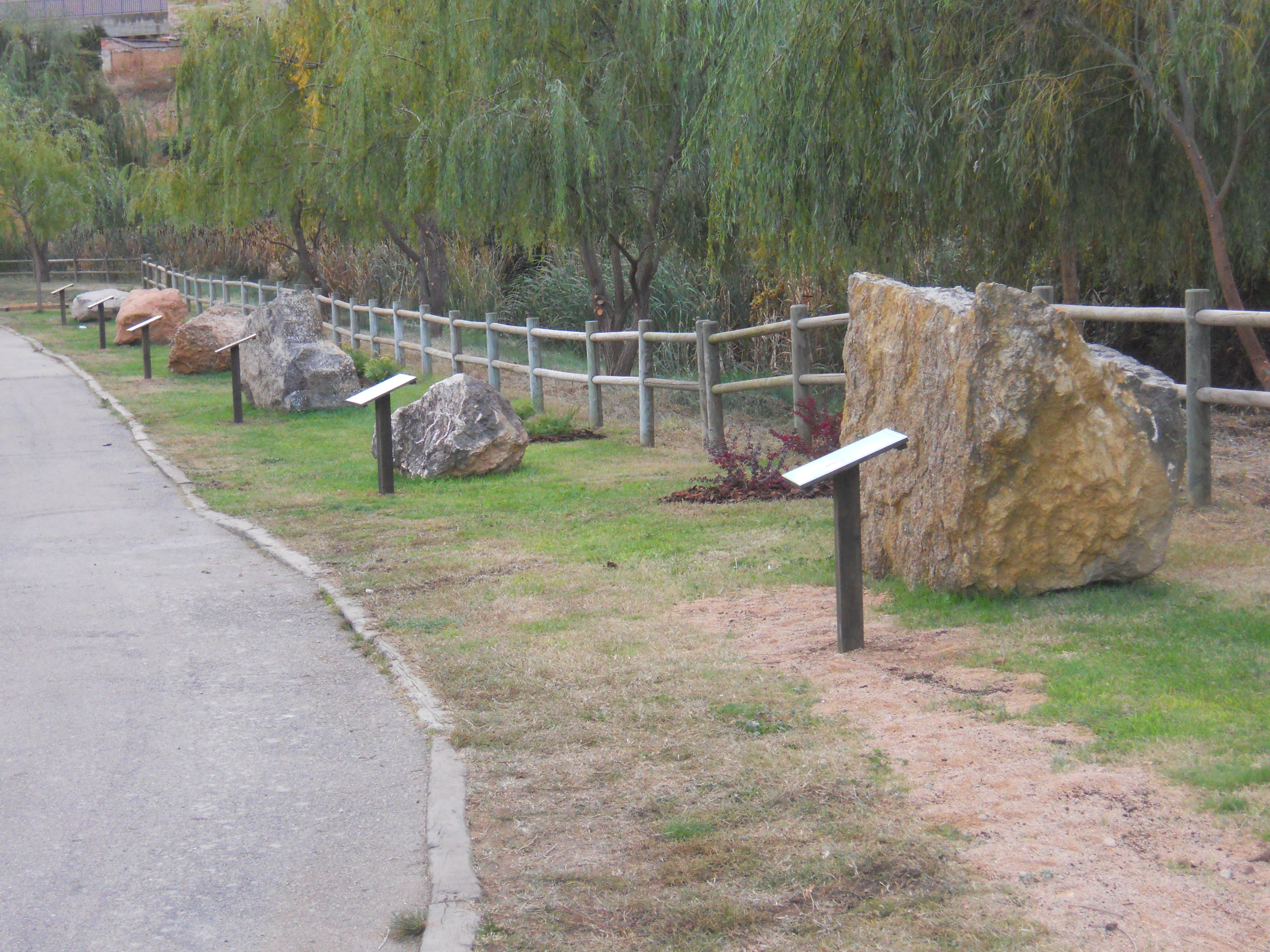 Rocks Garden «Juan Paricio, Geologist», Alcorisa, Teruel, Spain. View of rocks 8-12